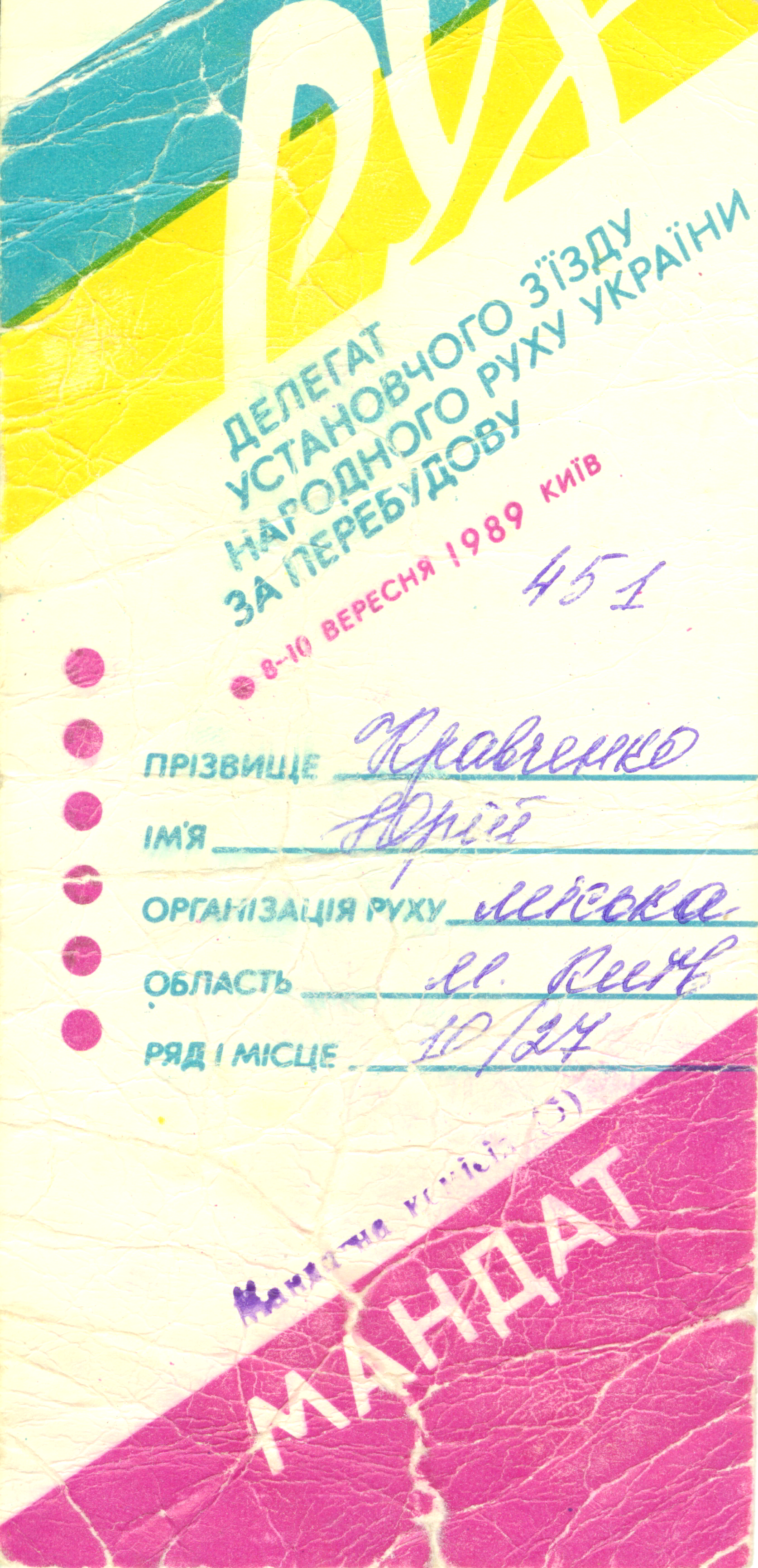 The mandate of the delegate of constituent Congress of People's Movement (Rukh) of Ukraine for the Reconstruction, 08-10.09.1989